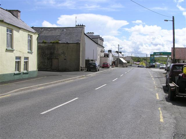 Cloghan Heading east